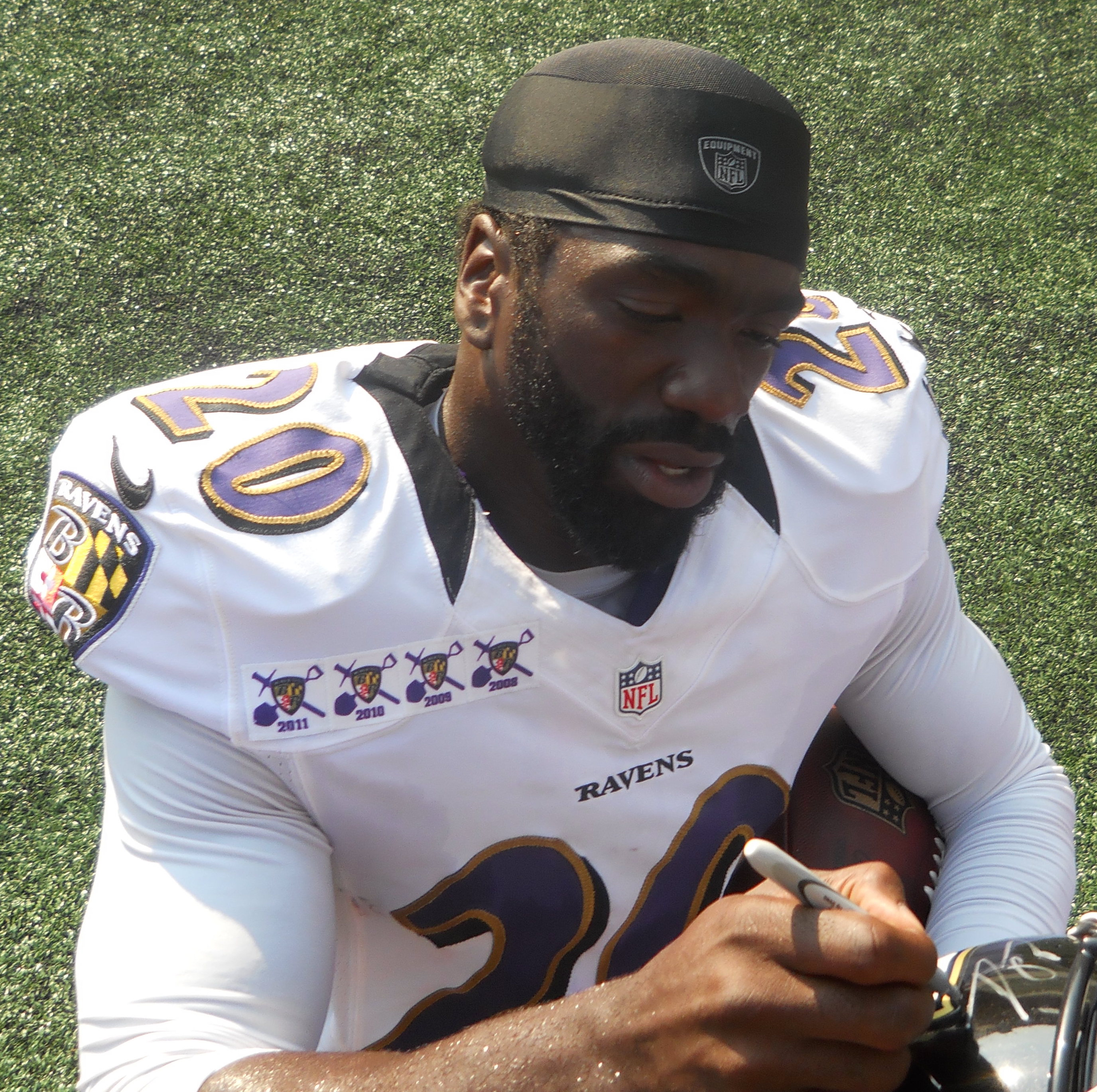 Baltimore Ravens safety, Ed Reed, signing autographs on Ravens Military Appreciation Day on August 4, 2012.